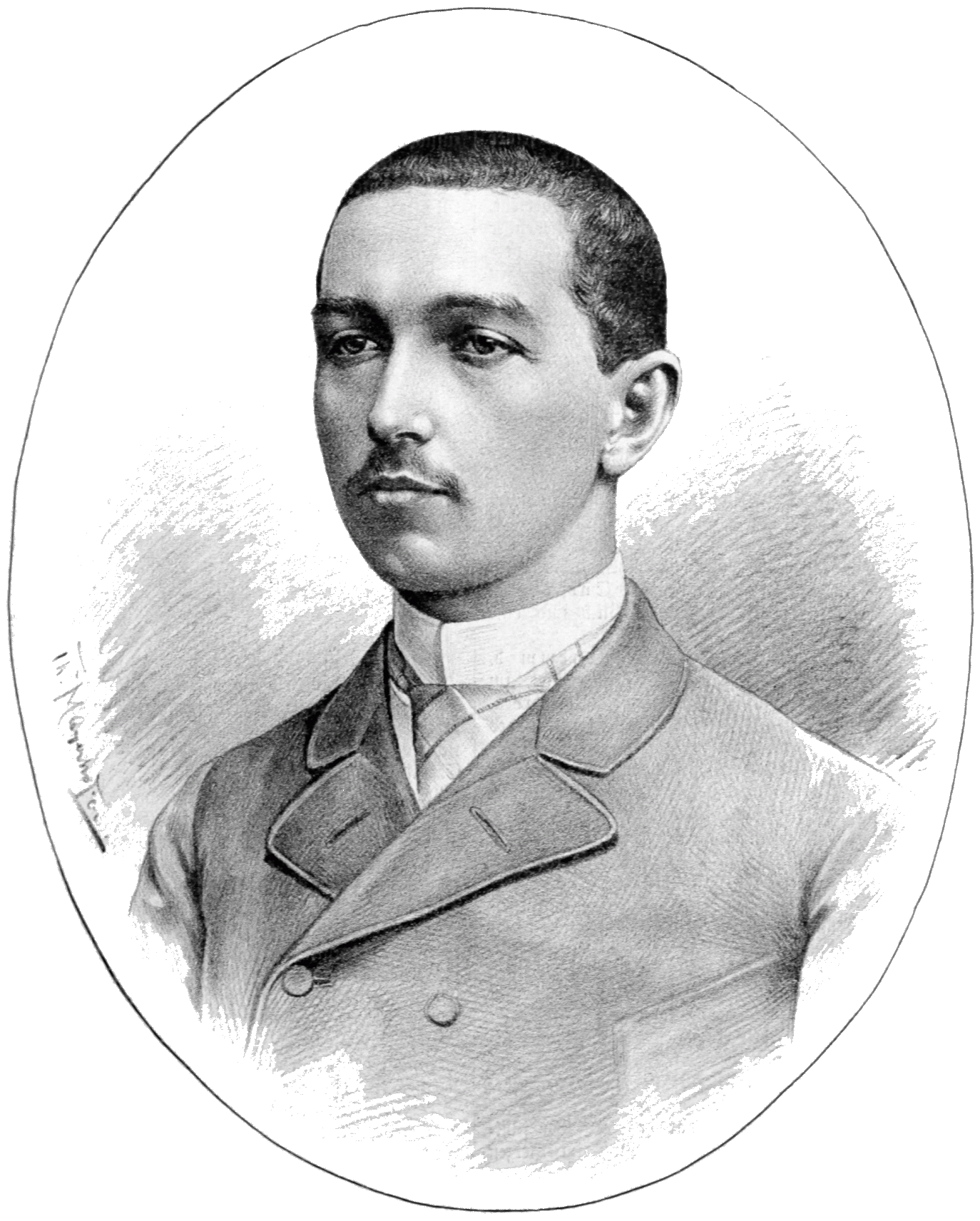 Abbas Hilmi Paşa (1874–1944), Egyptian Khedive (viceroy) Abbas II between 1892 and 1914 date QS:P,+1500-00-00T00:00:00Z/6,P1319,+1892-00-00T00:00:00Z/9,P1326,+1914-00-00T00:00:00Z/9